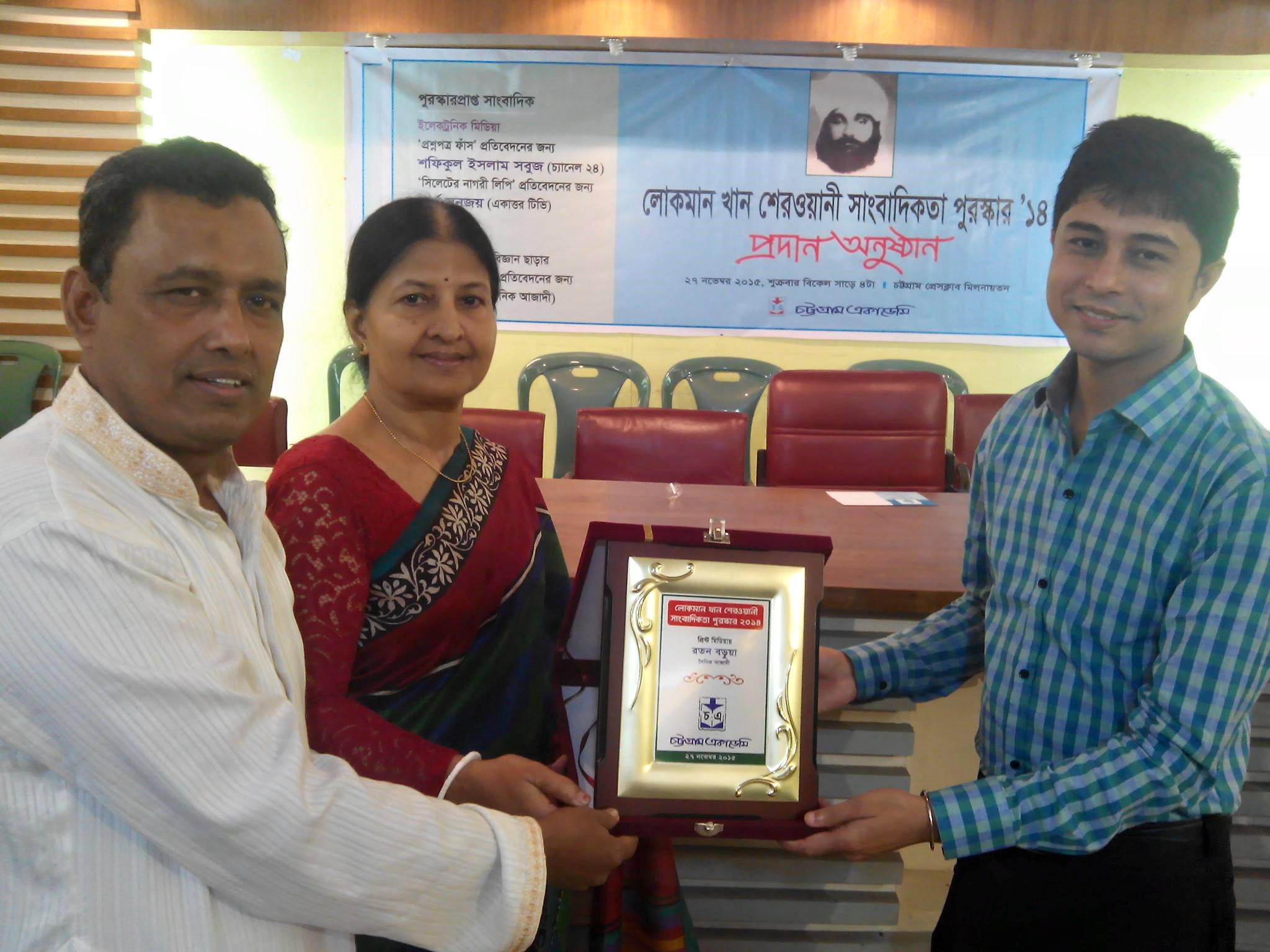 Recipient of Lokman Khan Sherwani Journalism Award by Chottogram Academy